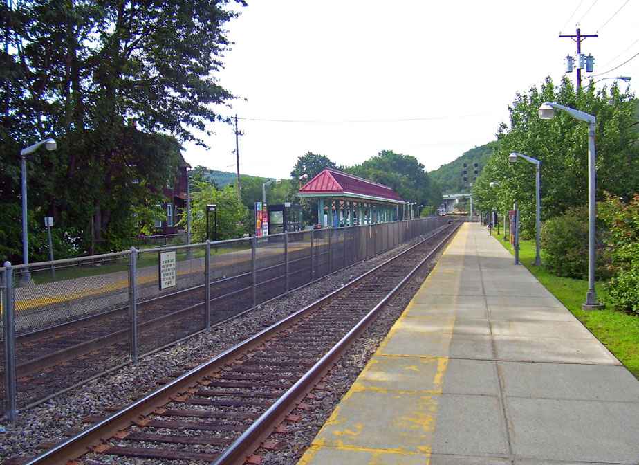 Photographed by Daniel Case 2006-08-13.